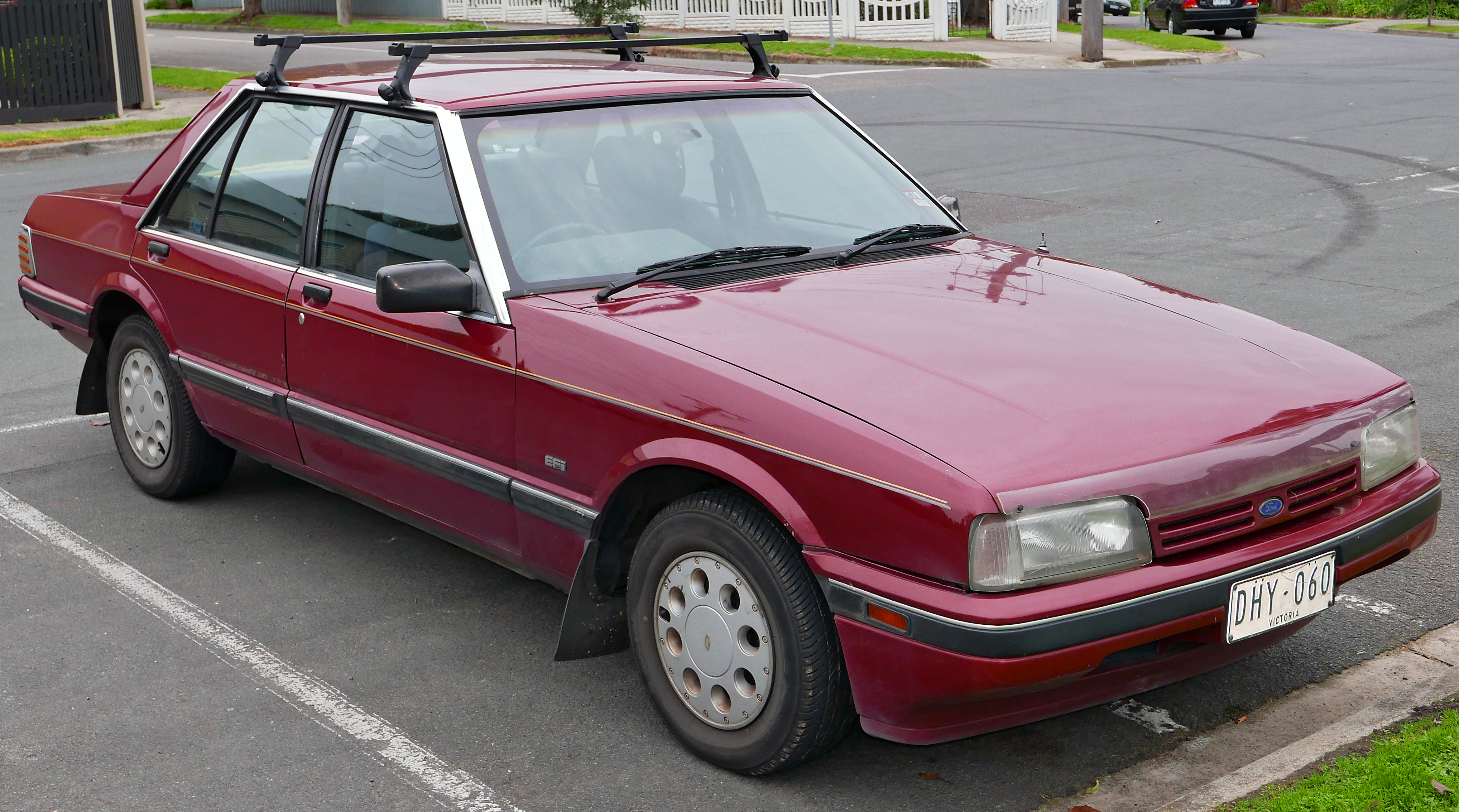 1988 Ford Fairmont (XF) sedan. Photographed in Kew, Victoria, Australia. Vehicle registration enquiry results Jurisdiction Victoria Registration DHY060 Chassis code Not available Engine code JG34HM81018C Compliance date Not available Year of manufacture 1988